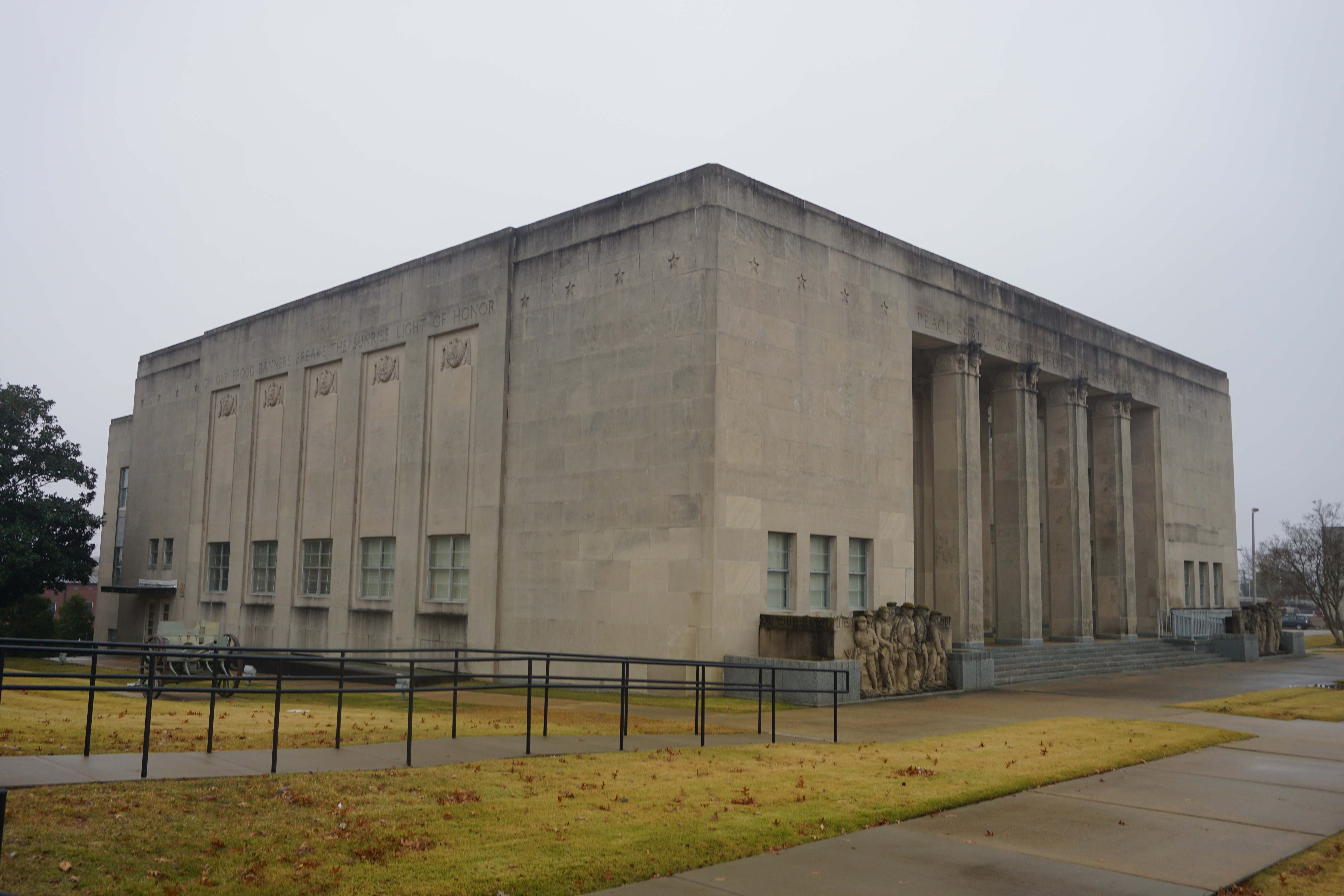 The War Memorial Building in Jackson, Mississippi (United States).